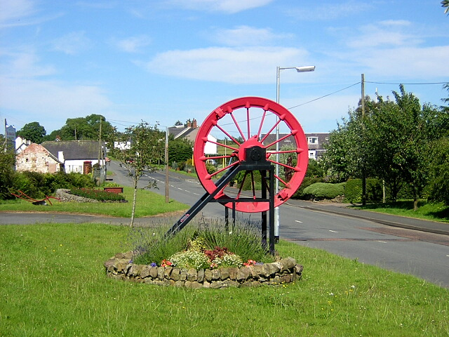 Memorial in Rowanburn. Memorial - plaque on memorial states "In memory of Samuel Lindsay killed in Rowanburn Pit 14th January 1922"